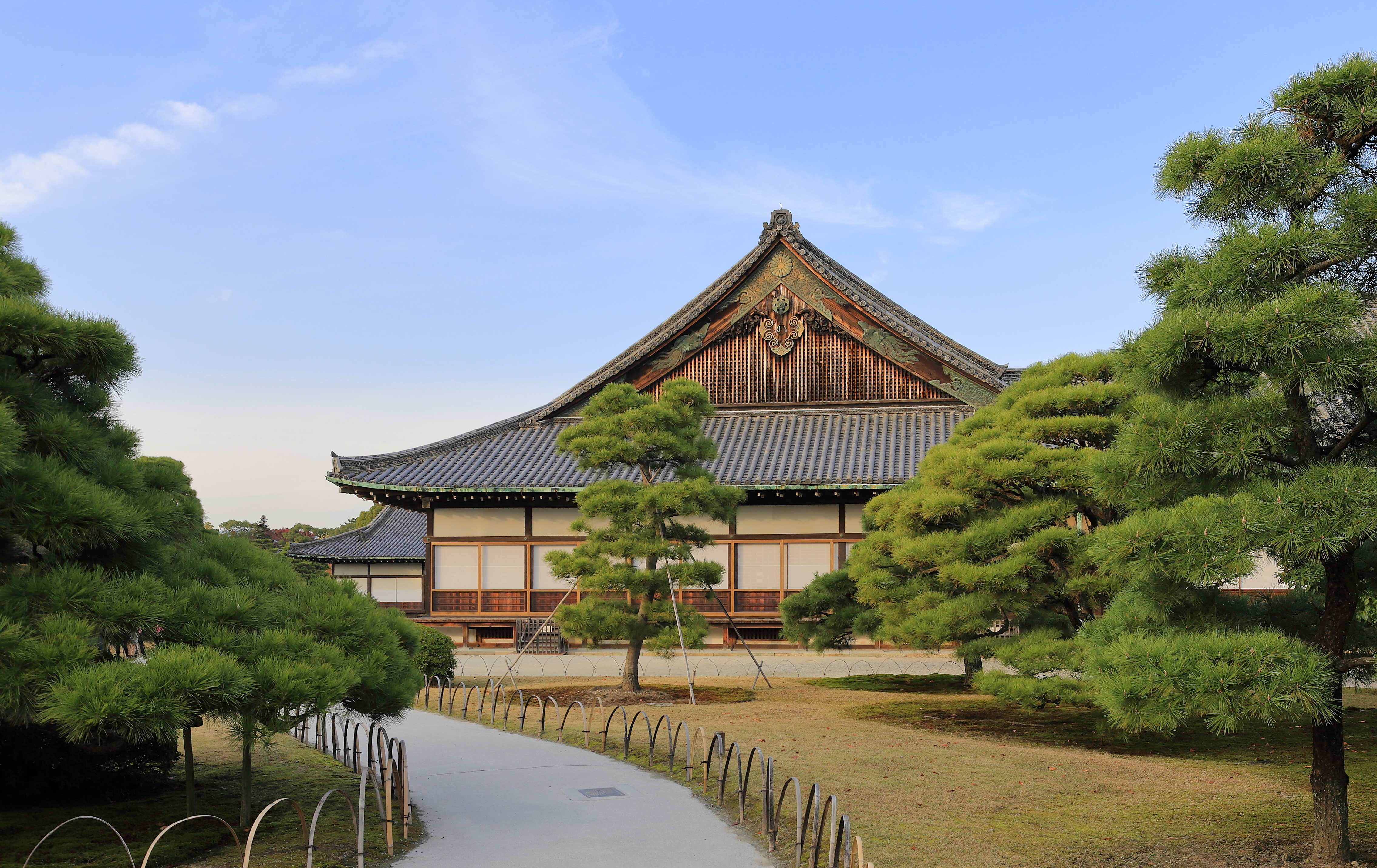 View of Ninomaru Palace at Nijō Castle, a flatland castle in Kyoto, part of UNESCO World Heritage Site Ref. Number 688.